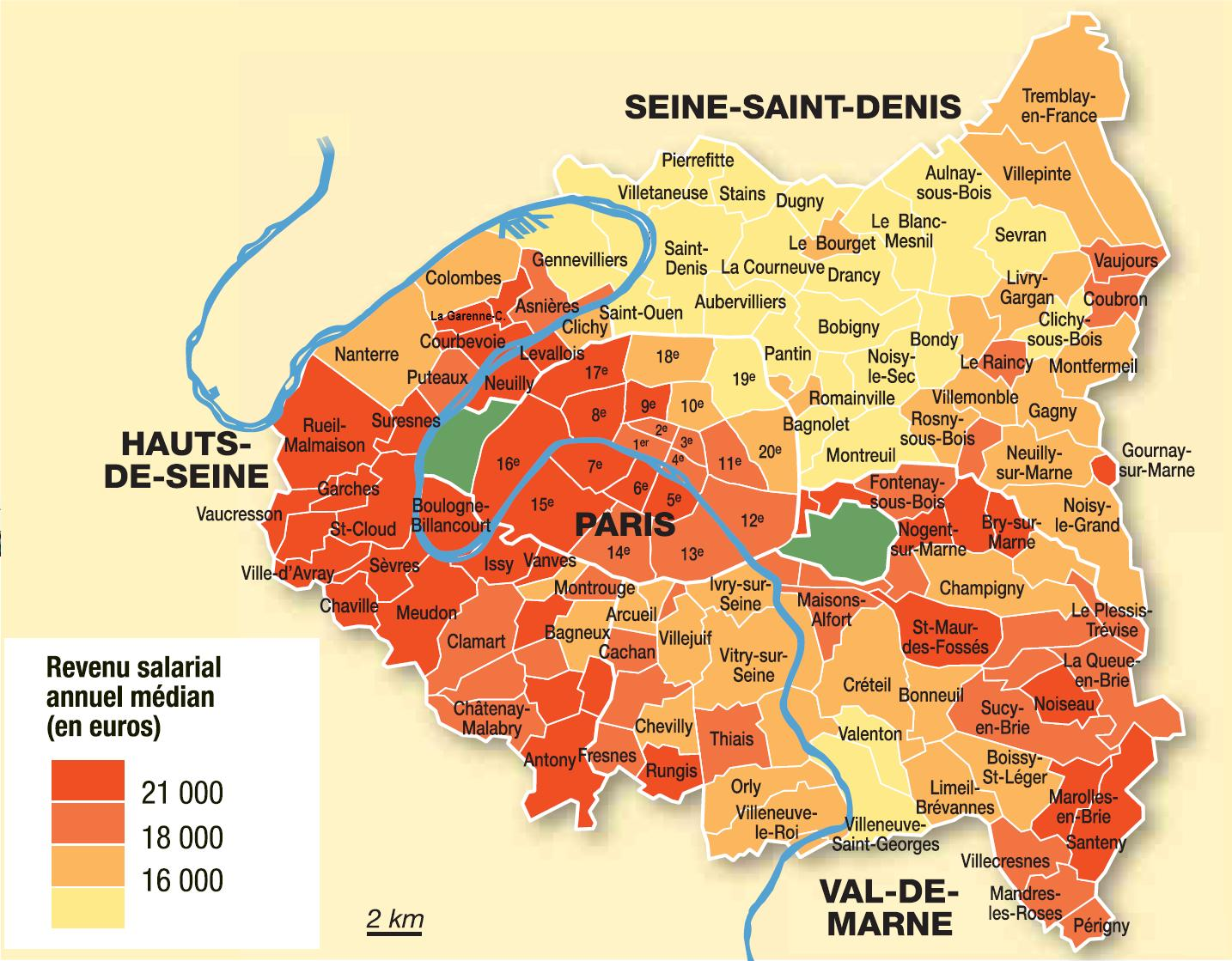 Map of median annual salary revenues in Euros in Paris and some Parisian suburbs (French)